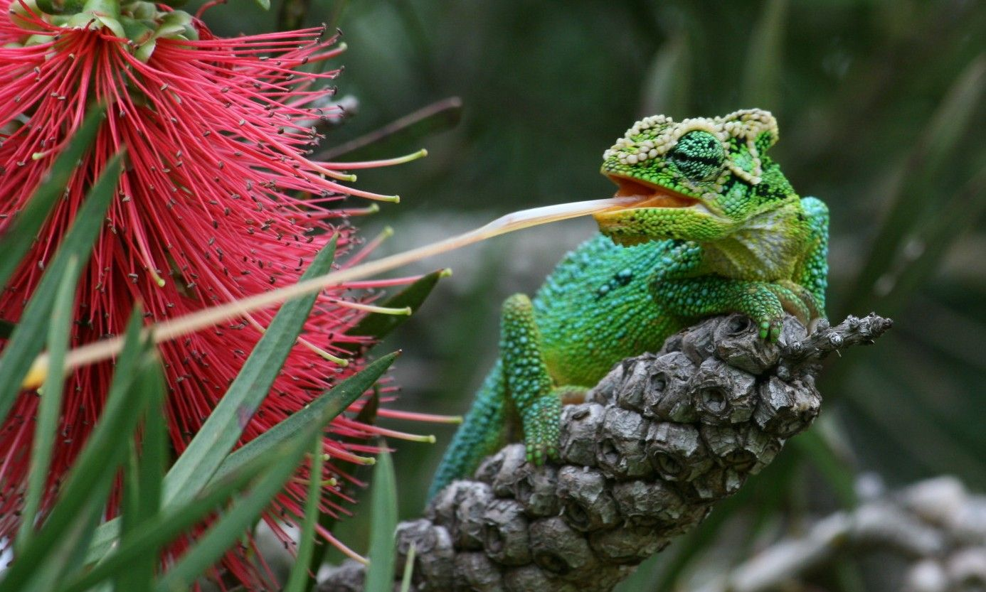 Emerald dwarf chameleon, an undescribed Bradypodion chameleon from the KwaZulu-Natal Drakensberg (between 29°15′ S and 29°45′ S ). This form is closely related to the Natal Midlands dwarf chameleon (Bradypodion thamnobates) - it is not a form of the Drakensberg dwarf chameleon (Bradypodion dracomontanum).